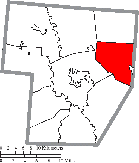 Map of the municipal and township boundaries of Fayette County, Ohio, United States, as of the 2000 census, with the location of Marion Township highlighted. Township borders are shown only in unincorporated areas in order to differentiate incorporated and unincorporated areas more clearly.